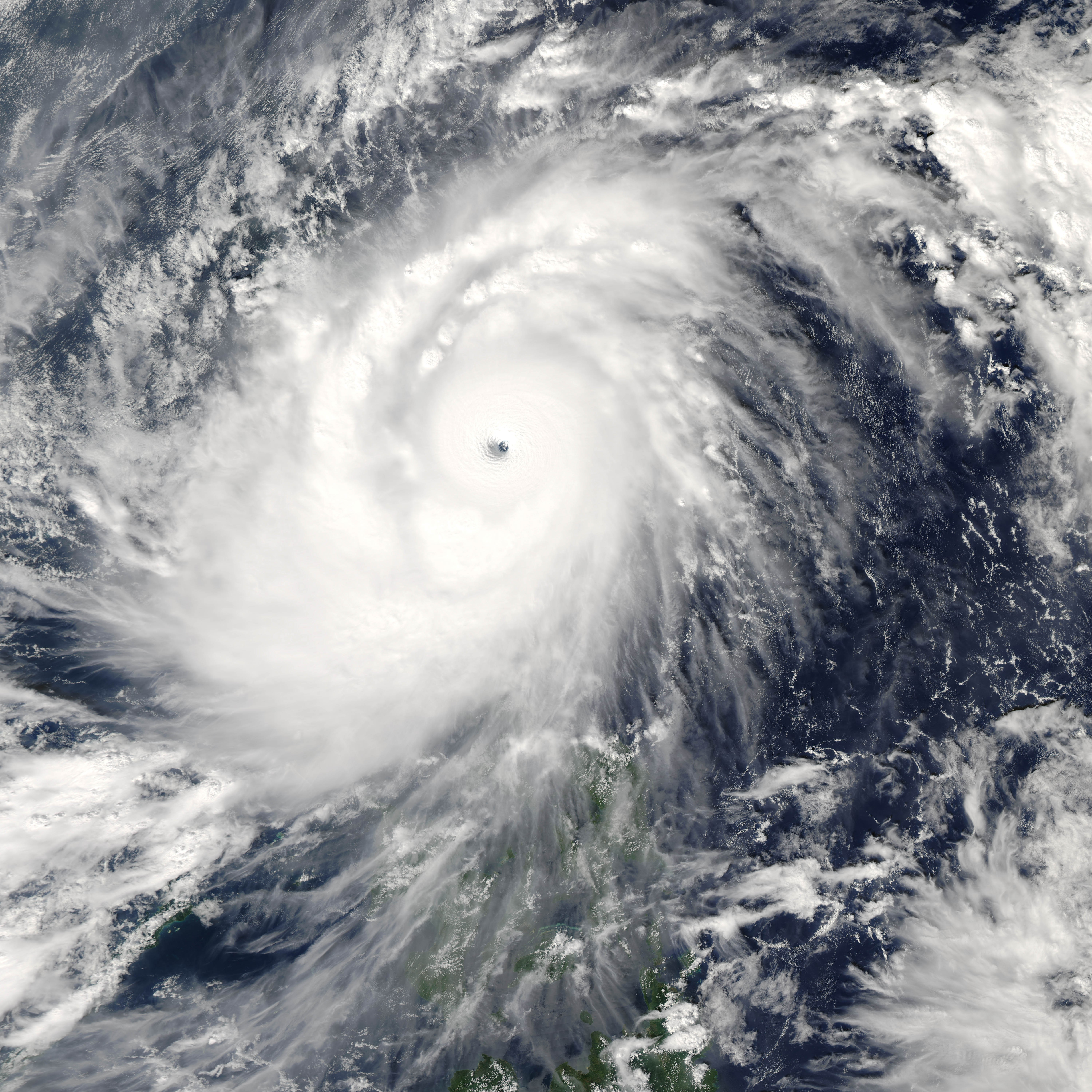 Super Typhoon Cimaron struck the northernmost large island in the Philippines, Luzon, on October 29, 2006. According to BBC News Service, the typhoon was the most powerful to strike the island chain since 1998, lashing Luzon with 200-kilometer-an-hour (125-mile-per-hour) winds and torrential rain. As of October 30, 13 deaths directly attributable to the storm had been reported. This photo-like image was acquired by the Moderate Resolution Imaging Spectroradiometer (MODIS) on the Aqua satellite on October 29, 2006, at 1:00 p.m. local time (5:00 UTC). Super Typhoon Cimaron was a tightly wound ball of clouds just hours from landfall on Luzon. Winds were around 255 kilometers per hour (160 miles per hour) at the time of this image, according to Weather Underground’s Hurricane Archive. As the storm came ashore, it eased off these Category 5-strength winds, but it still struck the mountainous islands with Category 4 winds hours after this satellite image was taken. The high-resolution image provided above is at MODIS’ full spatial resolution (level of detail) of 250 meters per pixel. The MODIS Rapid Response System provides this image at additional resolutions.